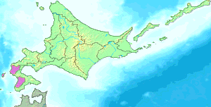 Hiyama shinkokyoku subpref